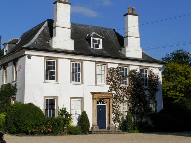 Jenner Museum